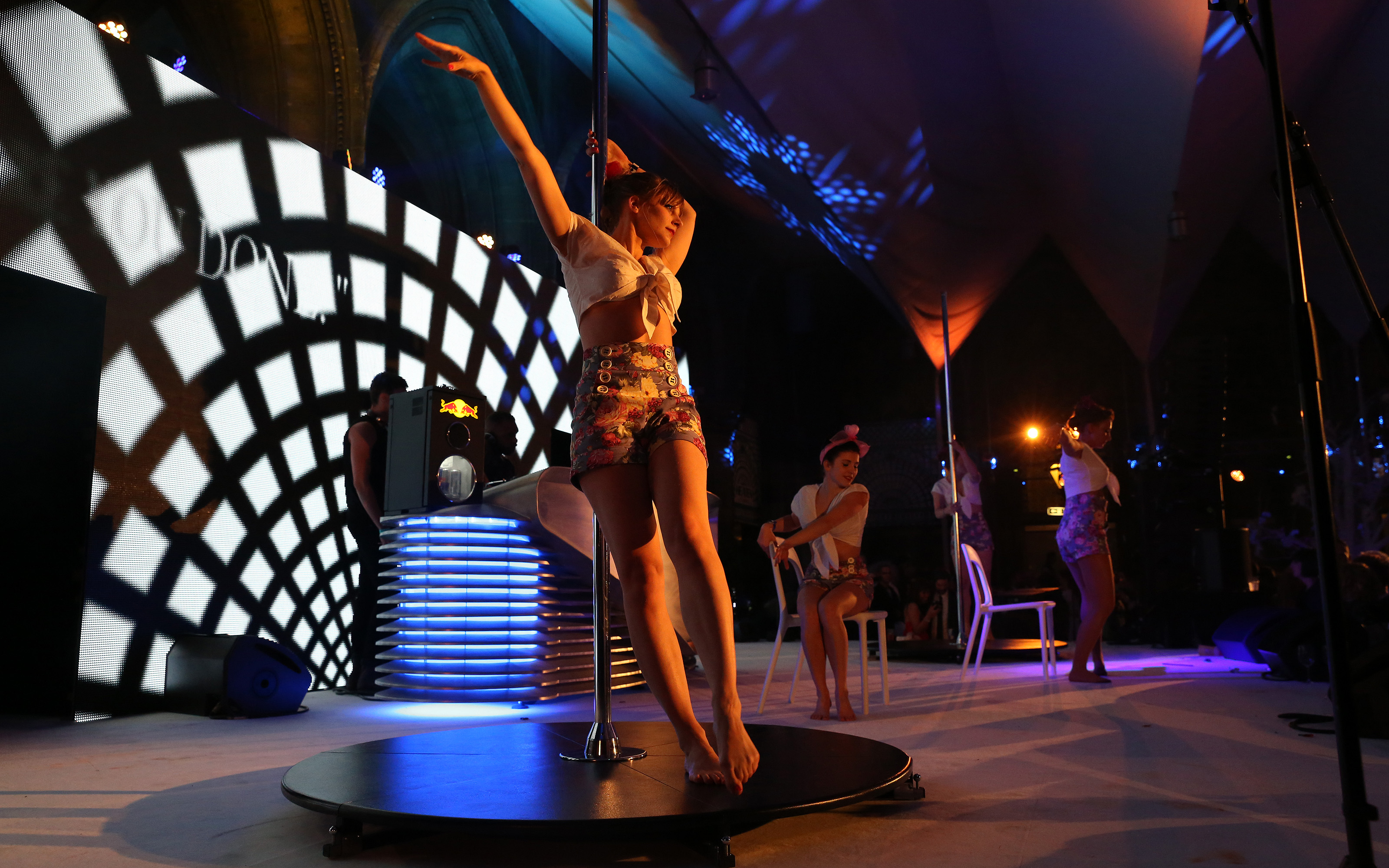 Life Ball 2014, pole dancing at the city hall of Vienna, Vienna, Austria.